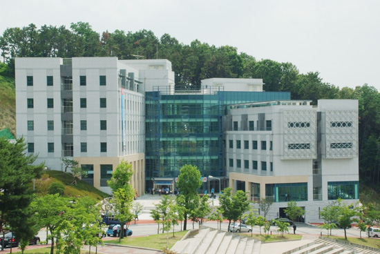 International Hall(Dankook University, Jukjeon)